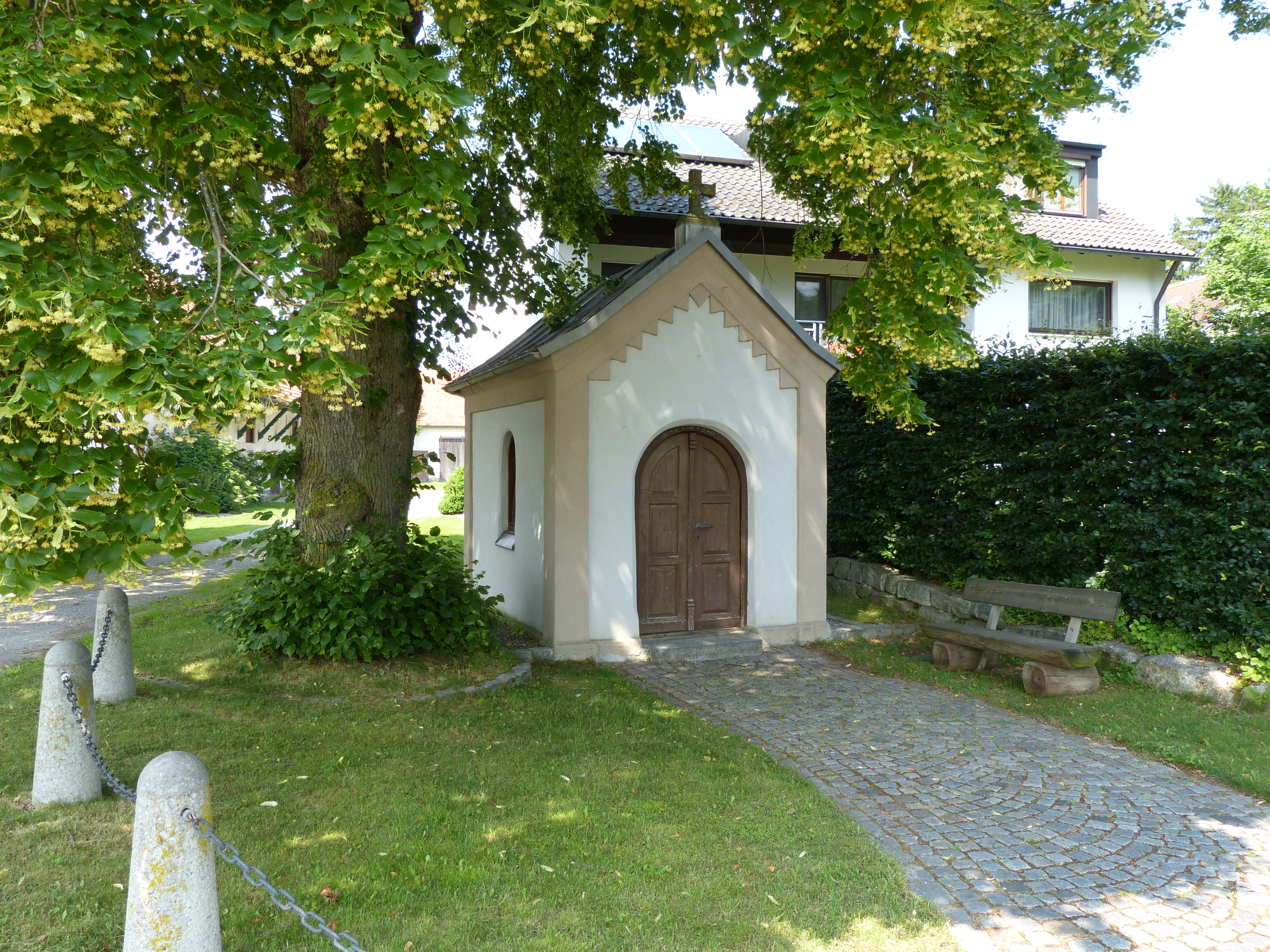 Baindl-Chapel, Ettringen, Administrative district Unterallgäu, Bavaria, Germany